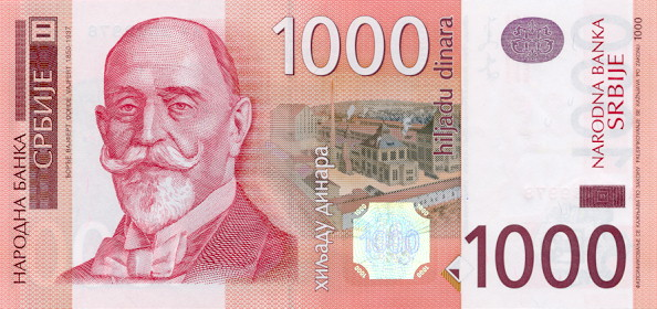 1000 Serbian dinar banknote, 2006 issue, front.